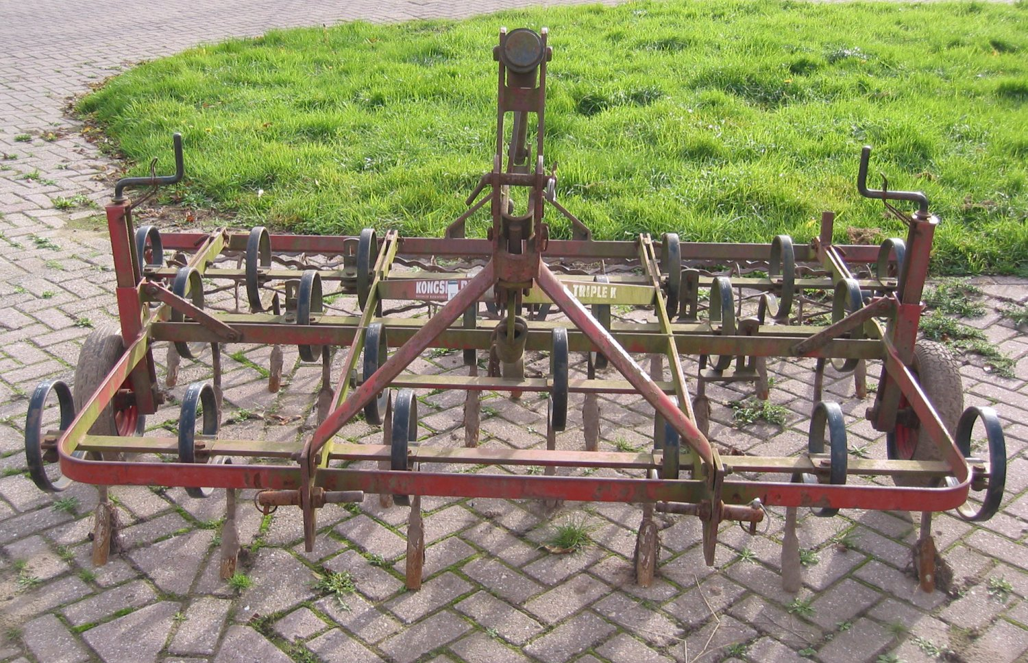 Seedbed cultivator-harrow Triple K by Kongskilde (this model was advertised by Kongskilde as an "all-purpose cultivator" and as a "combination of a spring-tine cultivator, a spring tine harrow, and a drag harrow")